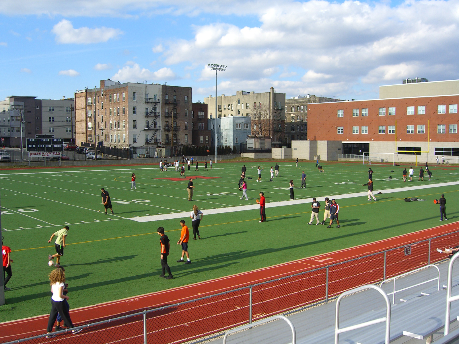 Students from Memorial High School in West New York, New Jersey using the atheltic field at Memorial Park on February 1, 2012. This photo was created by Luigi Novi. It is not in the public domain, and use of this file outside of the licensing terms is a copyright violation.